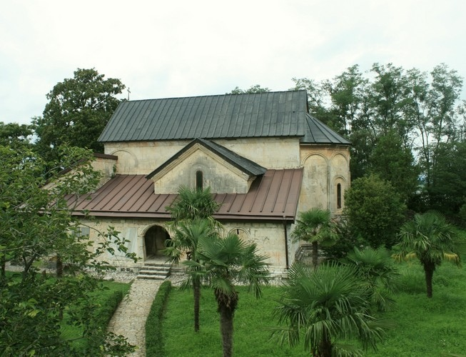 Khobi Monastery, Georgia